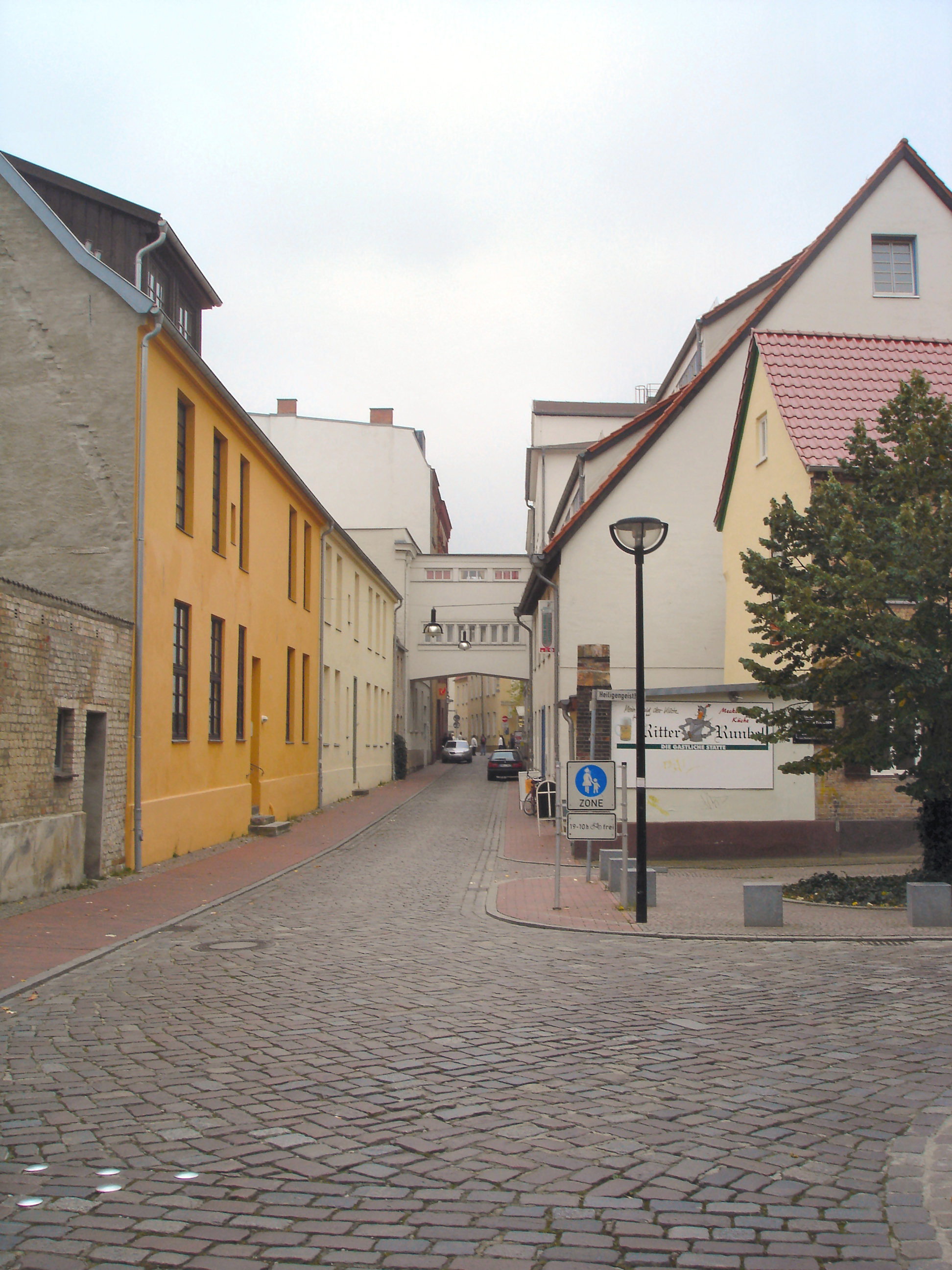 Street in the historic city of Rostock